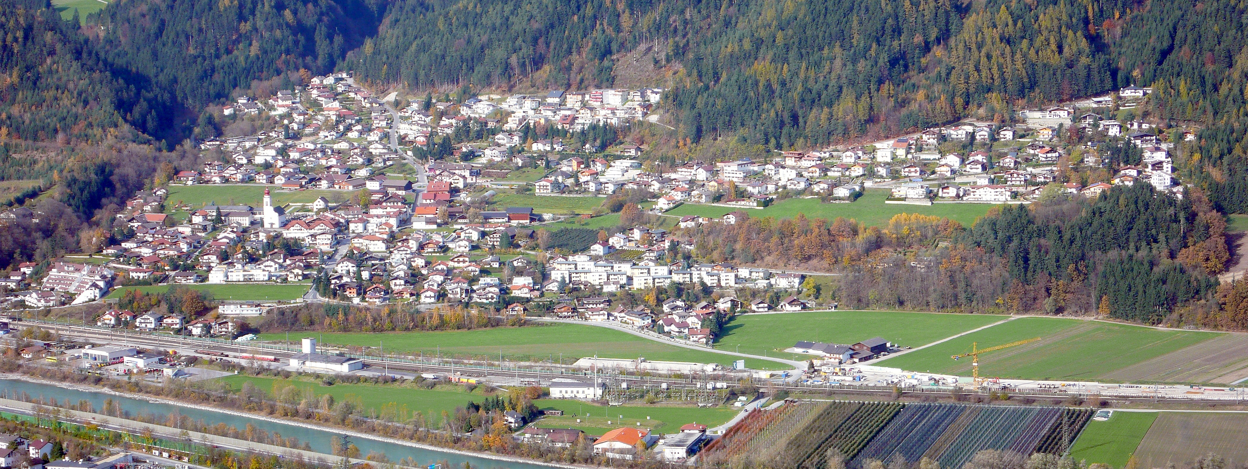 Fritzens Tyrol